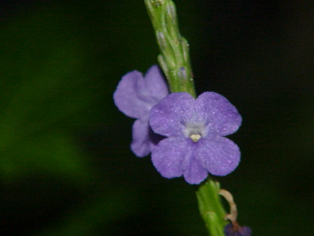 Species: Stachytarpheta jamaicensis Family: Verbenaceae Image No. 1